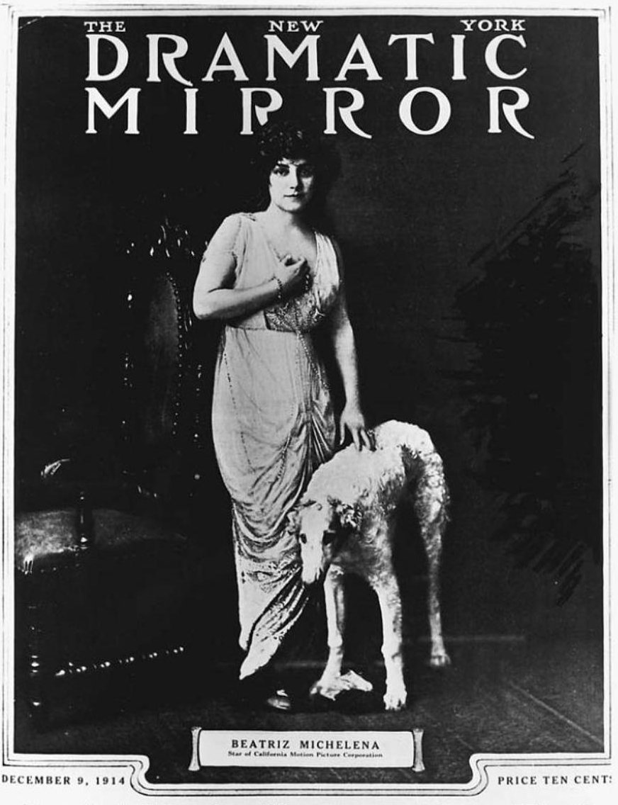 Cover image of the Dramatic Mirror published in December 1914, showing actress Beatriz Michelena with one of her two Borzoi dogs. This image scanned from page 106 of the 2003 book MeXicana encounters: the making of social identities on the borderlands, by Rosa Linda Fregoso.